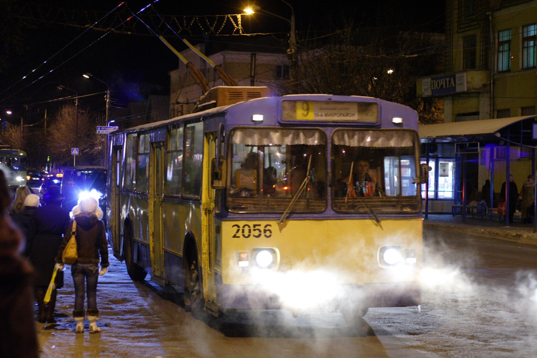 Trolleybus of model ZiU-9 in Bryansk